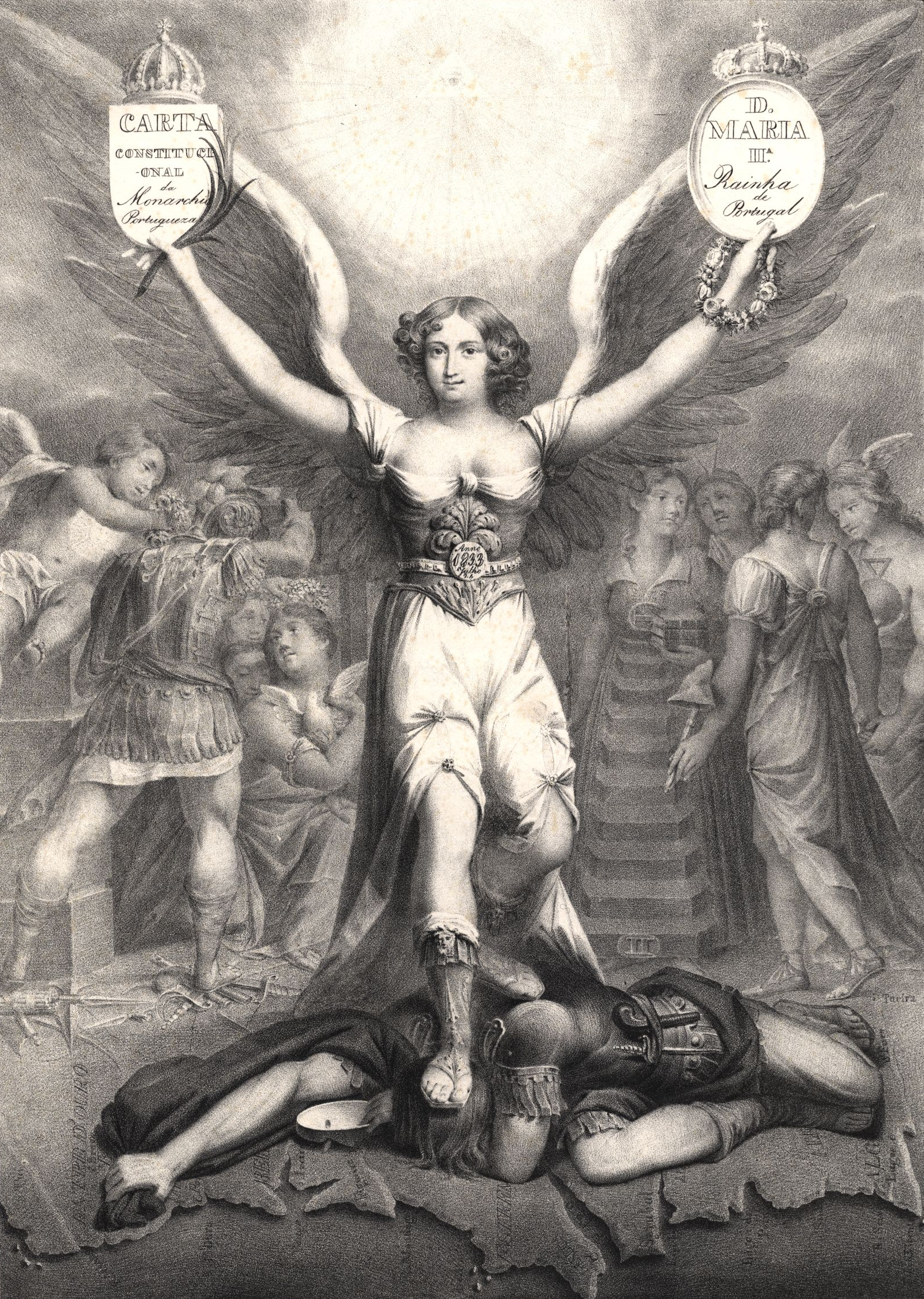 "Victory of Legitimacy" (by Maurício José do Carmo Sendim, 1833). Allegory of the entry of the Liberal forces in Lisbon on 24 July 1833, after the retreat of the Miguelists, during the Portuguese Civil War. In the center, Victory crushes under her feet the head of Despotism (who was usurping and oppressing all Portugal), and lifts on one of her hands the name of Queen Maria II, and on the other, the Constitutional Charter. To the left, the Love of the Fatherland steps on the weapons of the Tyrants and crowns Innocence, who is now free, with the crowns given to him by the Love of Virtue. On the other side, Freedom guides Science and Fine-Arts to Portugal, from which they had been banished.